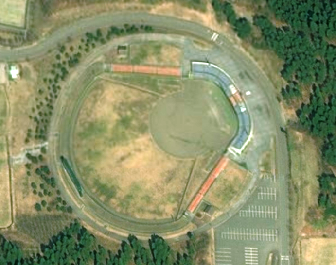 Satellite view